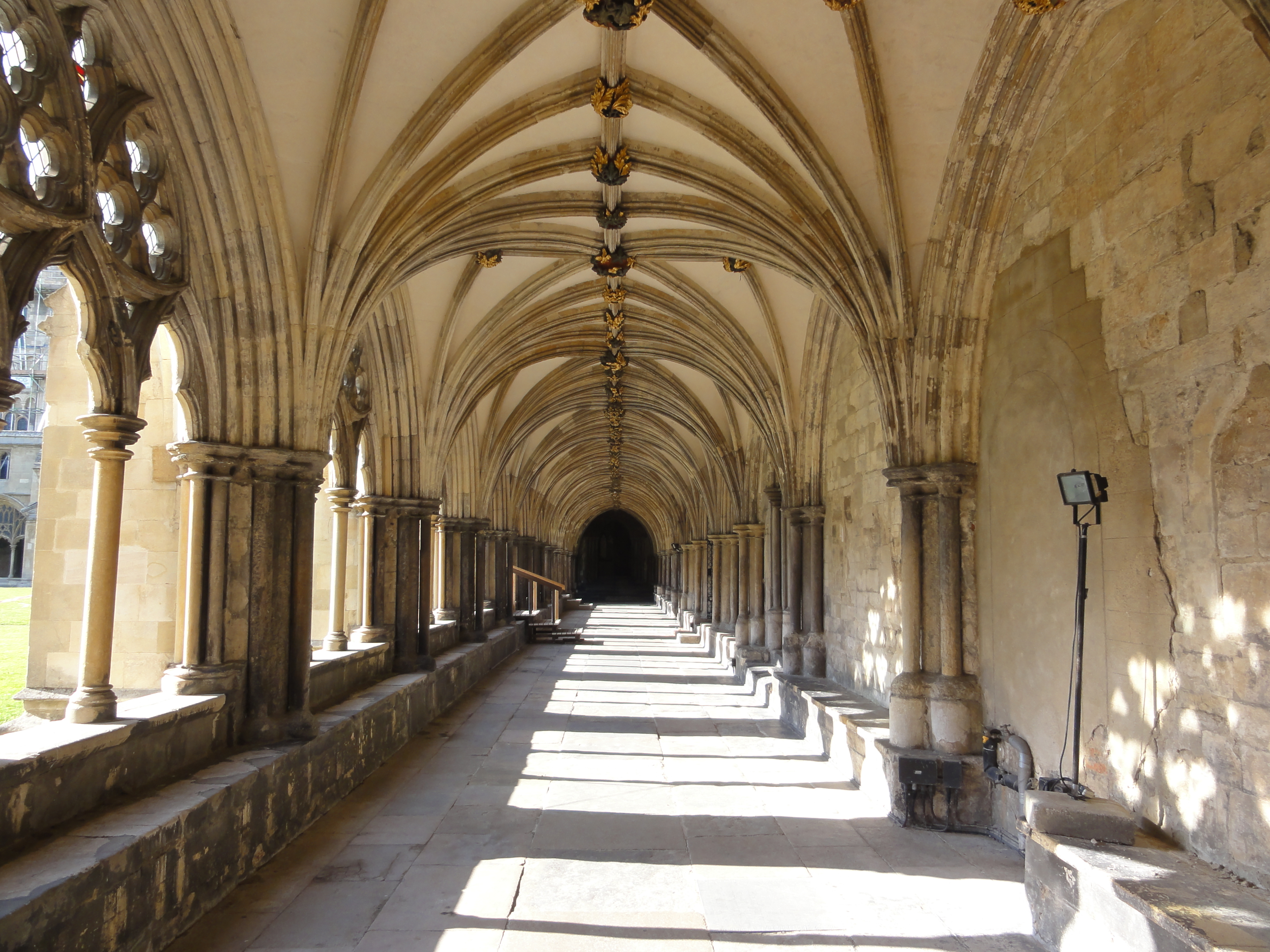 HDR image looking down one of the cloister arcades.